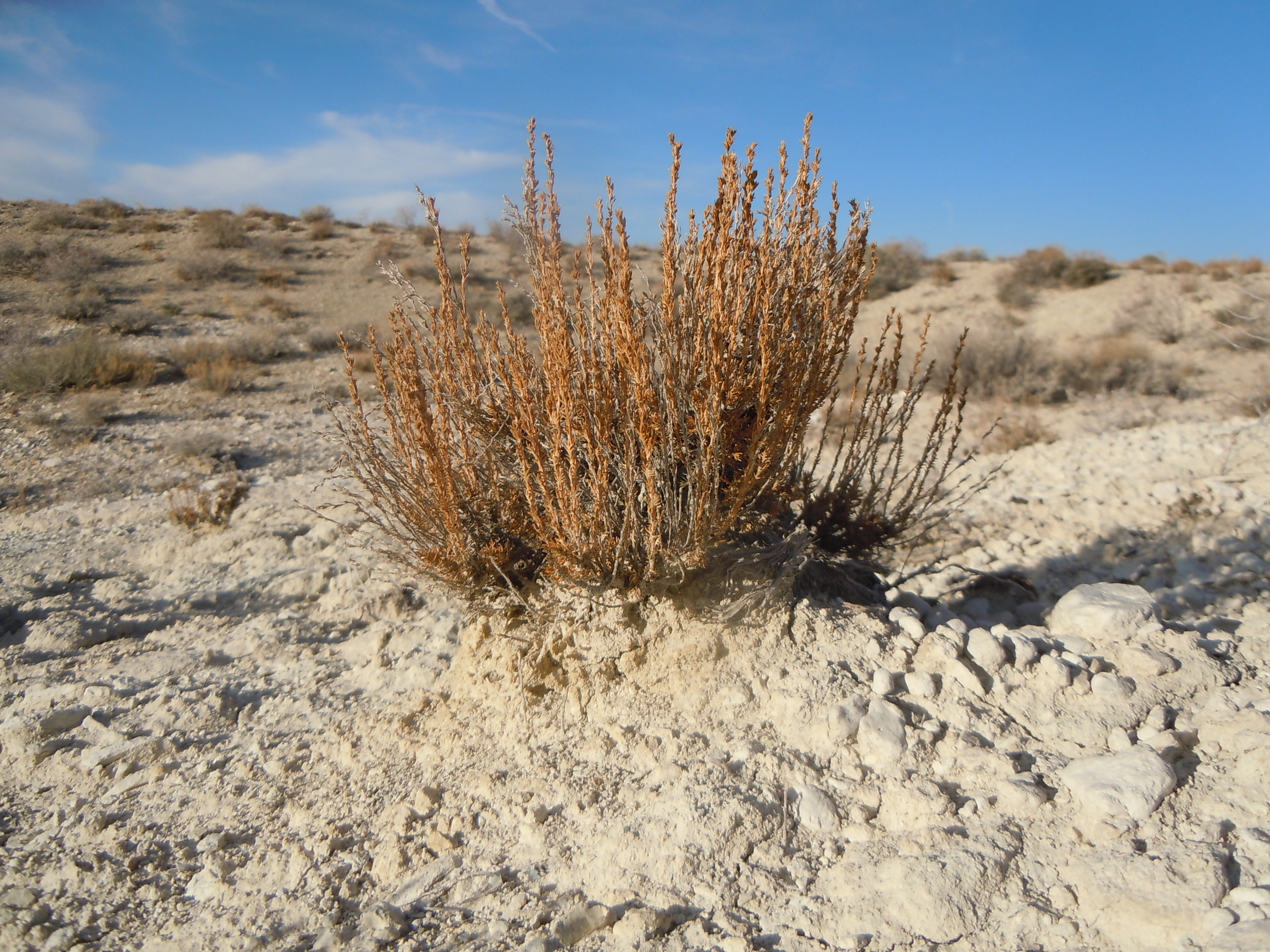 Artemisia pygmaea may be an azonal species in that it is restricted to clayey (e.g., bentonite-like) knolls and not off such soils where grasses like Hilaria jamesii co-dominate with Artemisia tridentata wyomingensis (which co-dominates on the clayey knolls).